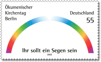 Stamp from Deutsche Post AG from 2003, First ecumenical Kirchentag in Berlin